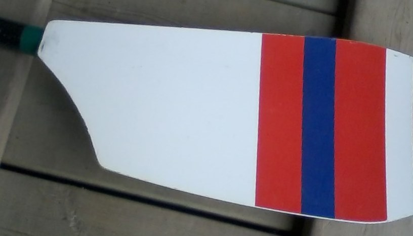 Blade colours of the Ottawa Rowing Club